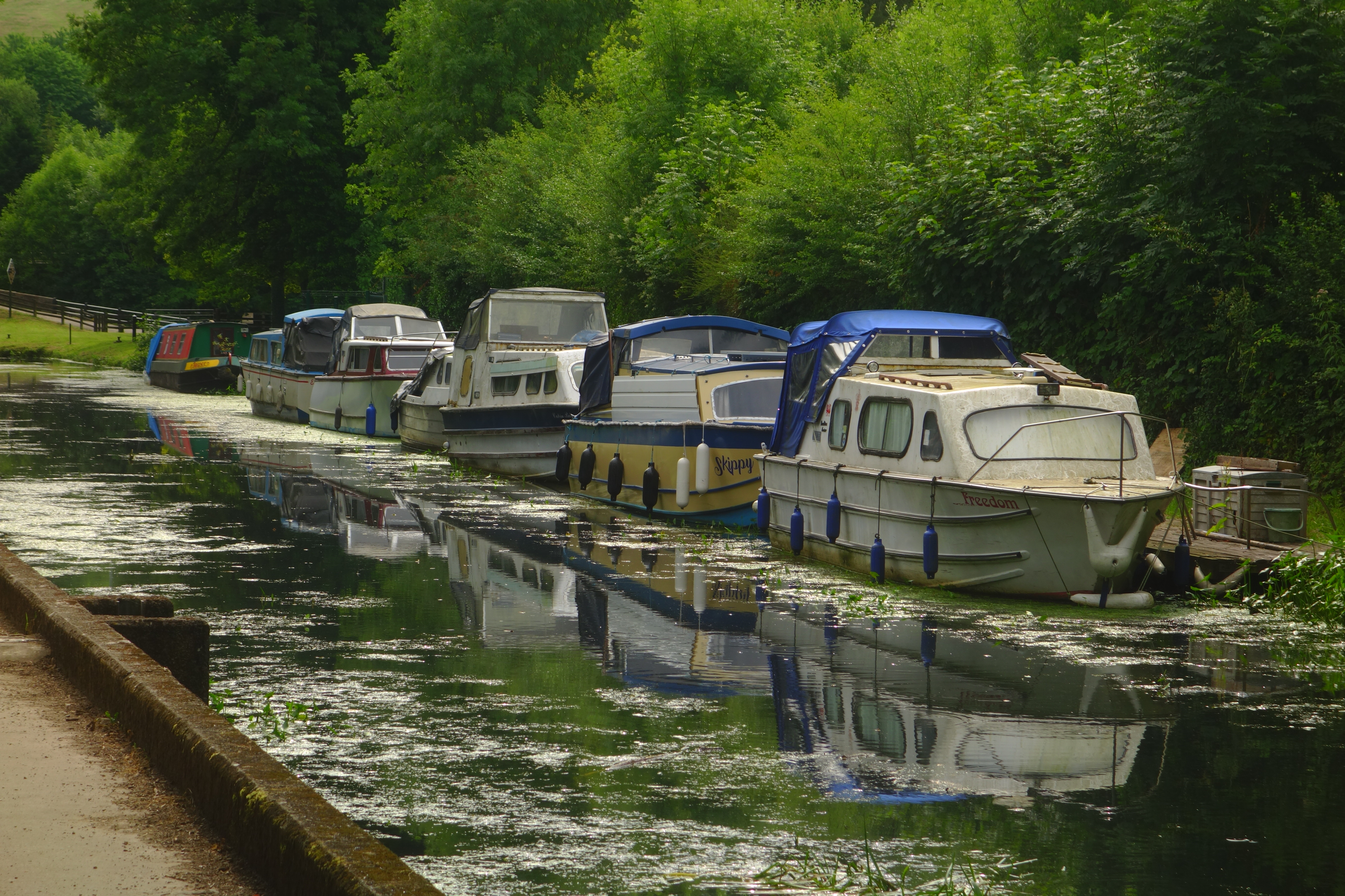 Aqueduct over Afon Lwyd, Monmouthshire and Brecon Canal Wikidata has entry Q29496200 with data related to this item. Boats reflecting in the canal at the aqueduct over the Afon Llwyd.